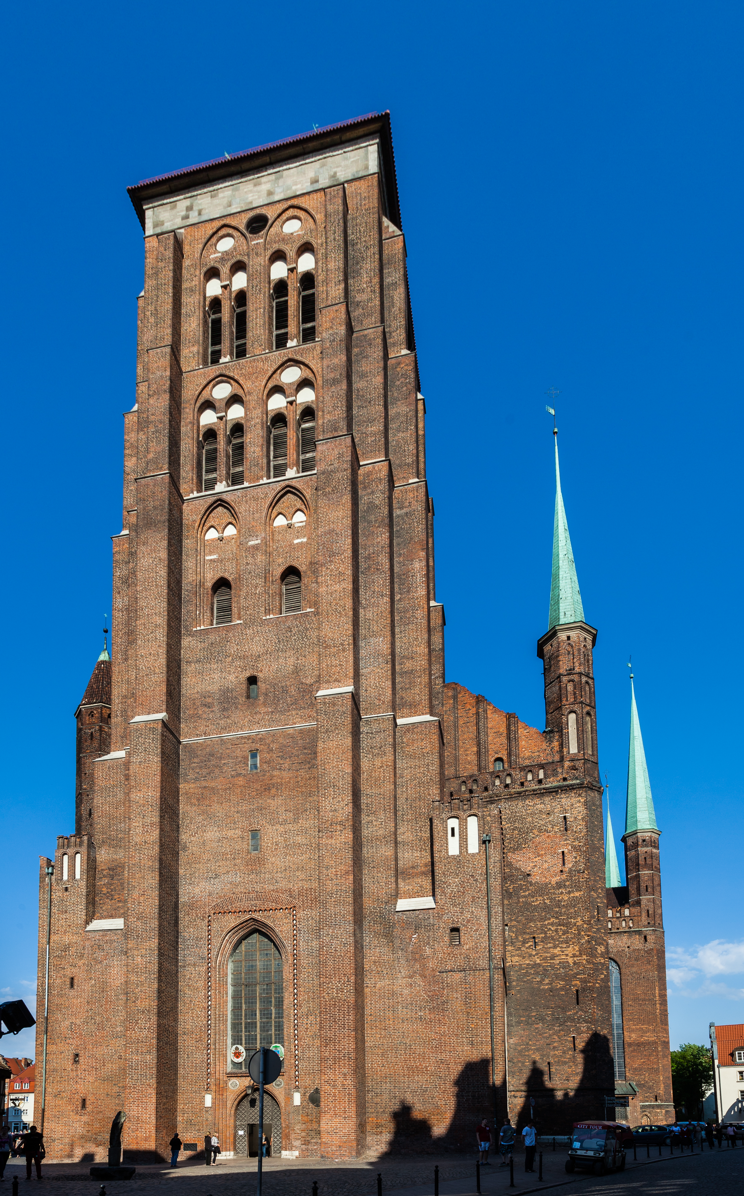 Church of St Mary, Gdansk, Poland